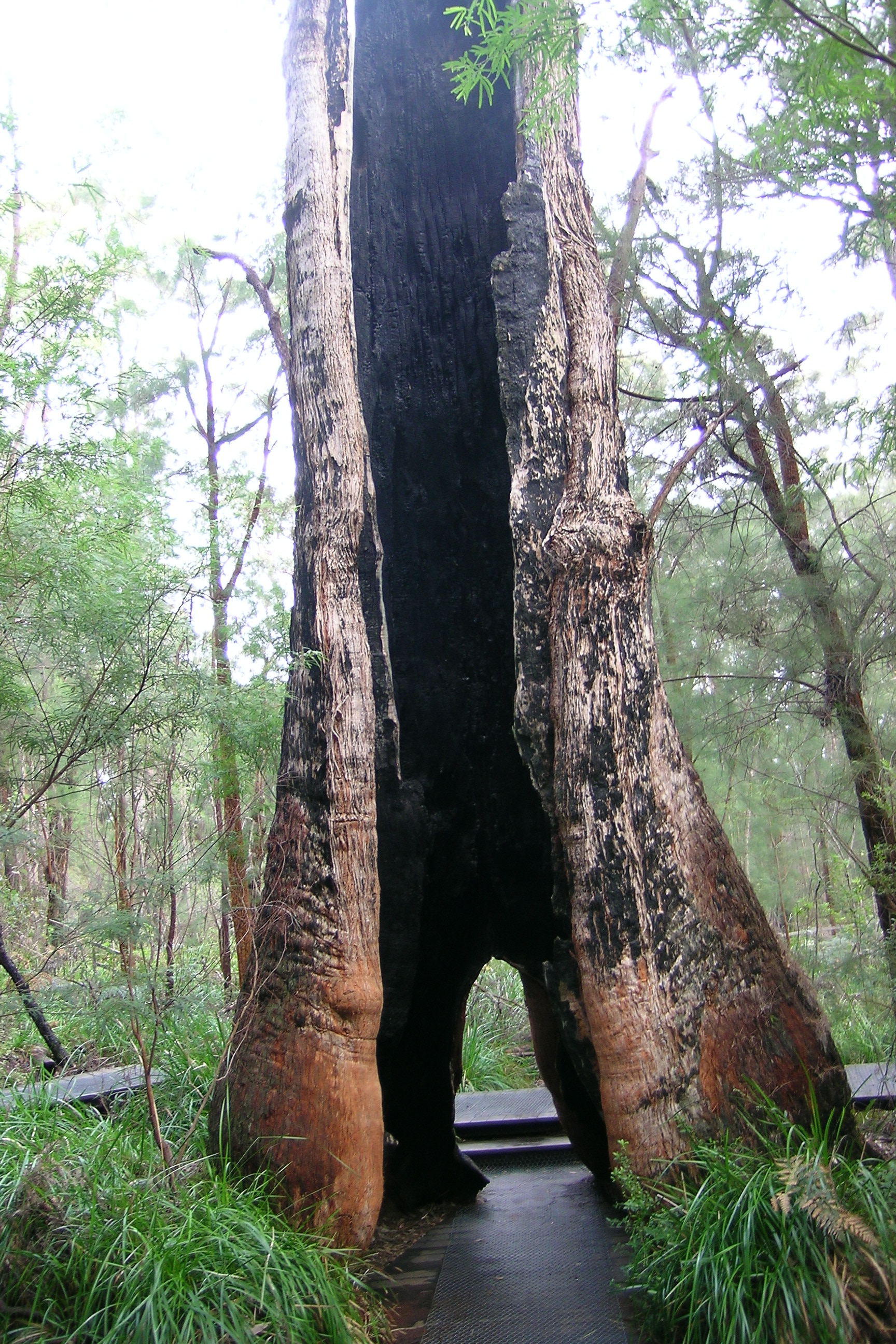 Burnt out Red Tingle from Walpole-Nornalup National Park in Western Australia